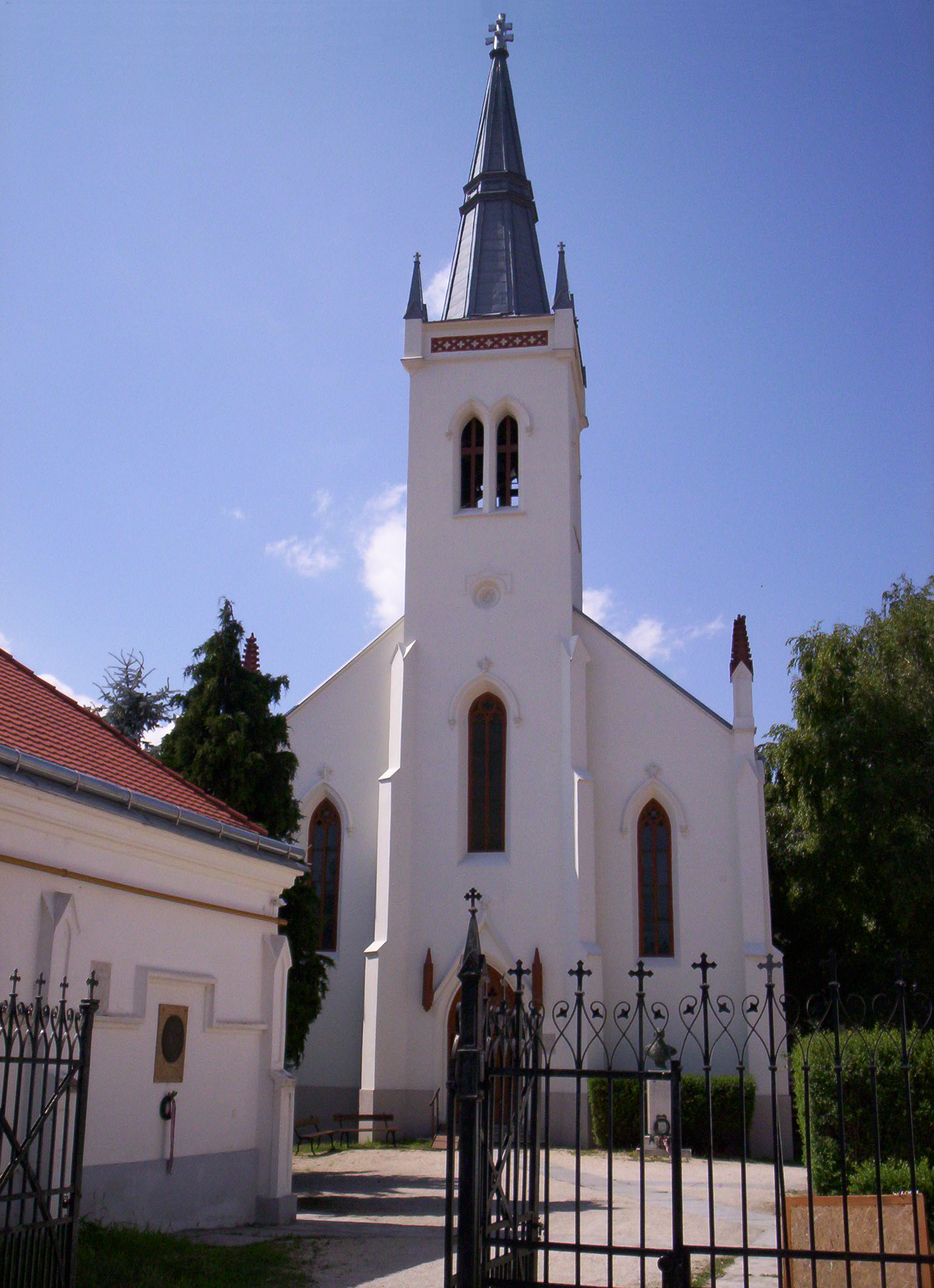 The Lutheran church in Pápa, Hungary A pápai evangélikus templom